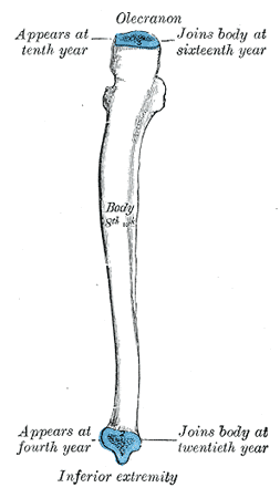 Plan of the development of the ulna by three centres.